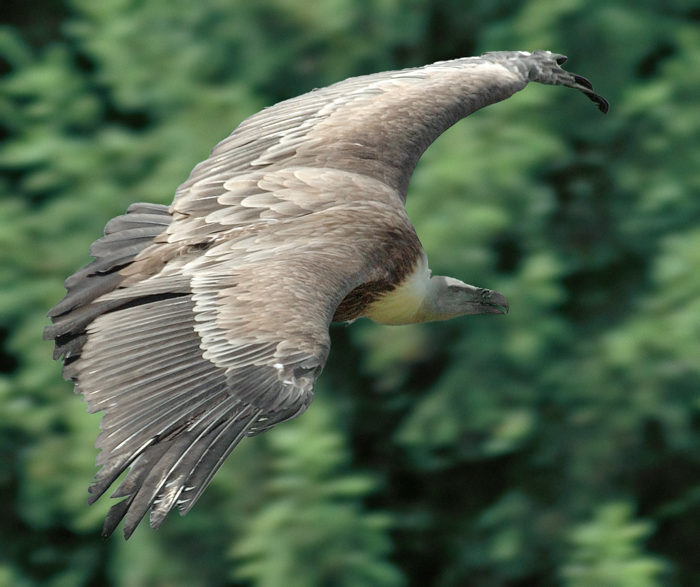 This image shows a flying Griffon Vulture (Gyps fulvus). It has been taken at the eagle observatory at the Pfänder in Austria.